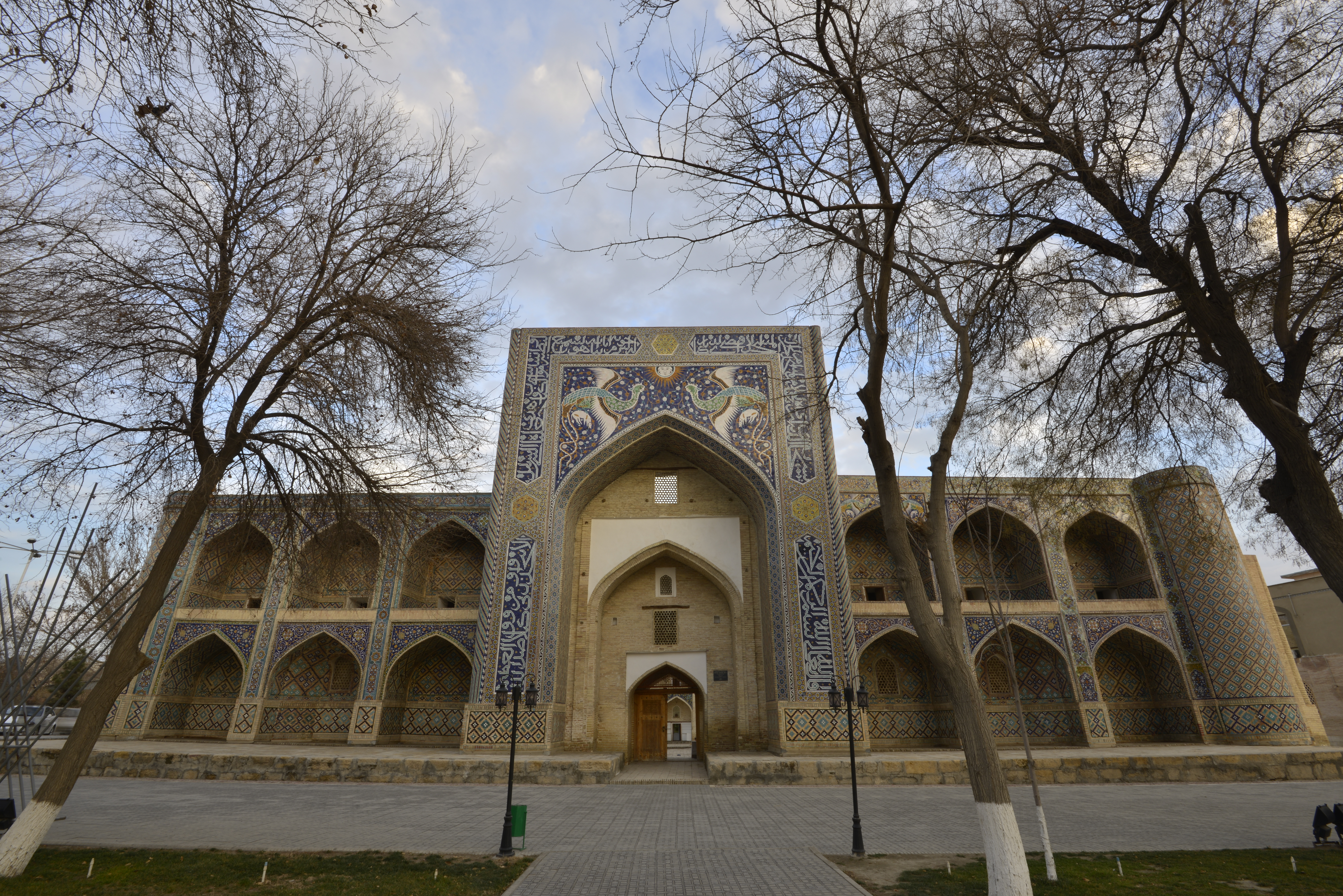 Nadir Divan-Beghi Madrassah, Lyab-i Hauz